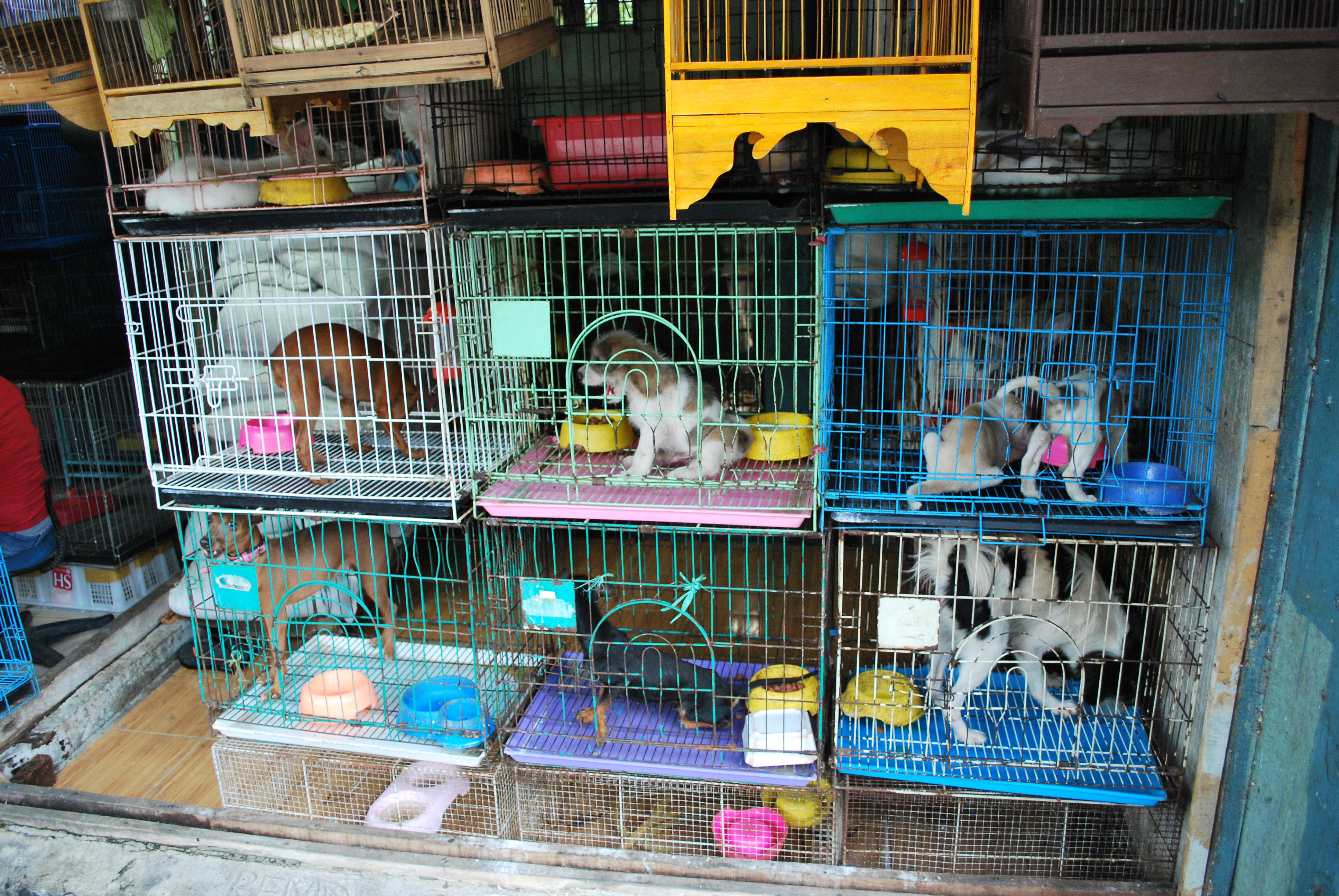 Photos from the "bird market" in South Jakarta